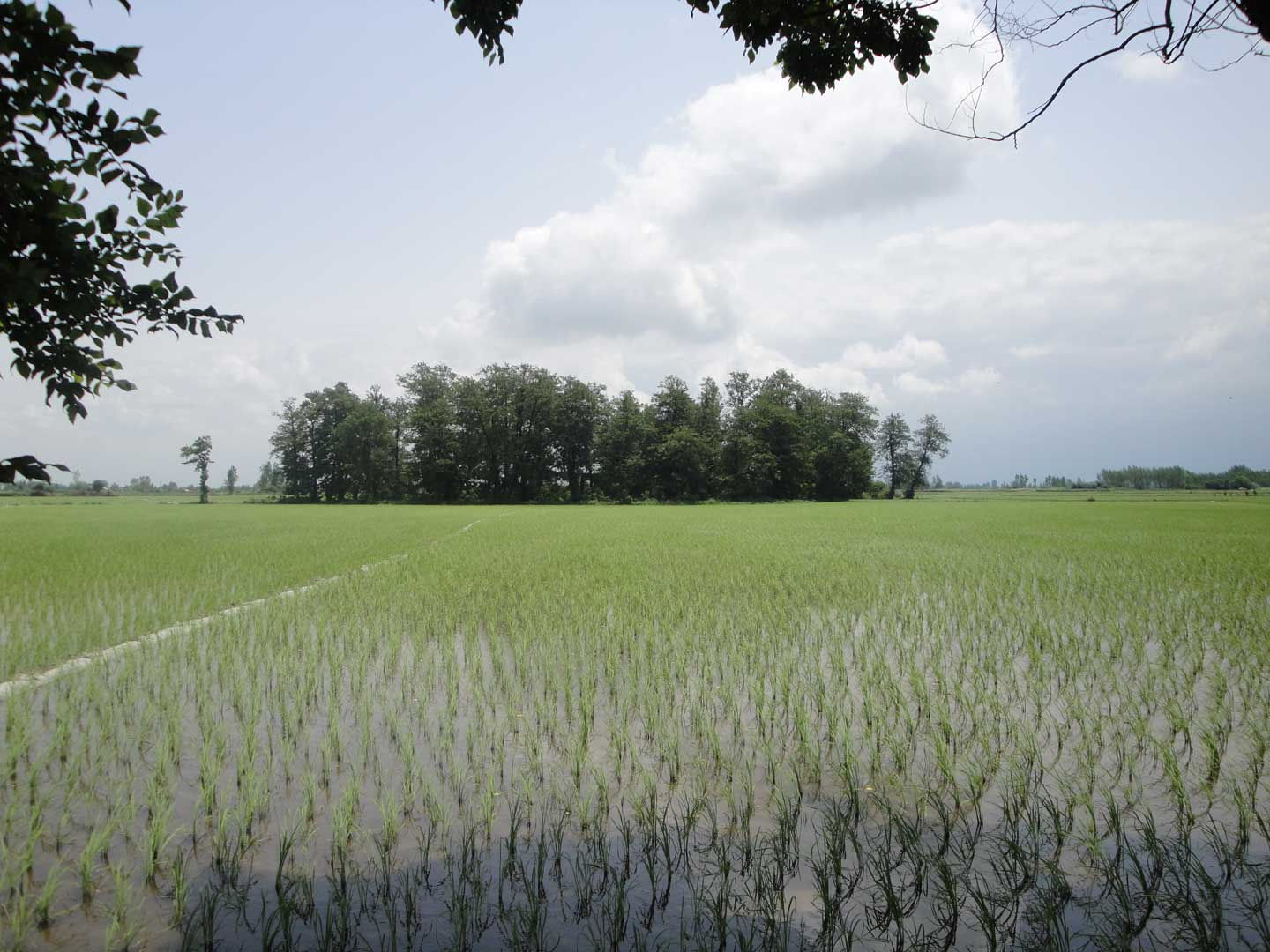 Paddy fields in Iran